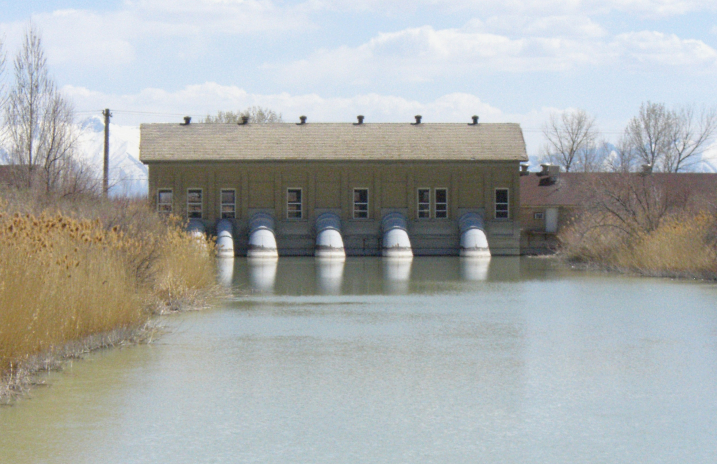 Pumping station that takes water from Utah Lake and puts it into the Jordan River. Utah Lake is on other side of building with the Jordan River shown.